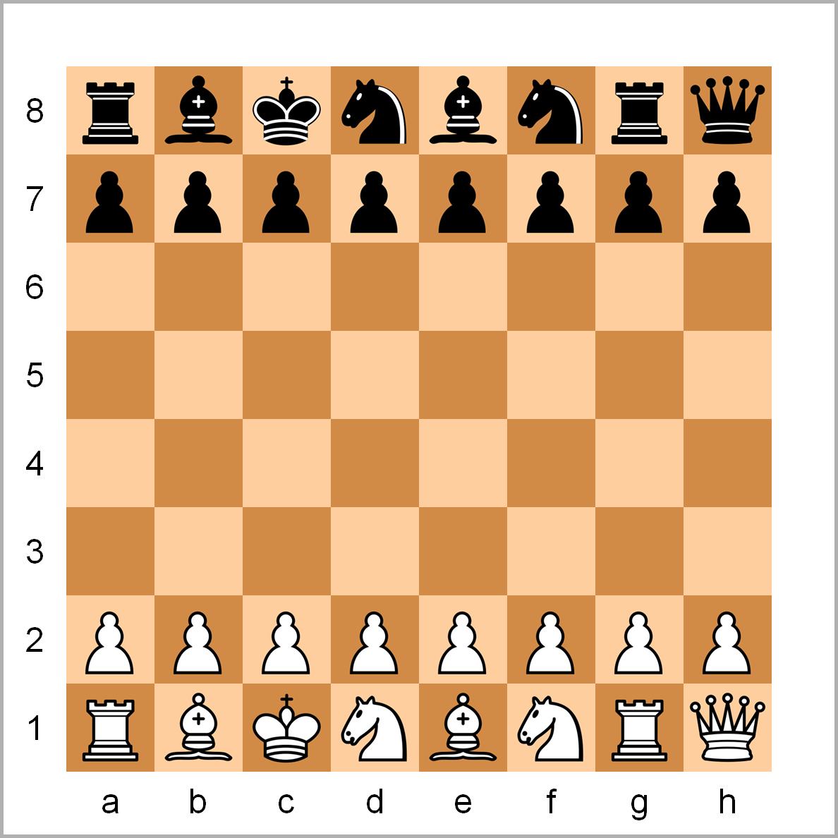 Chess960 example initial position (from Gligoric's book, ch. Fischerandom Rules, p. 87). Using the chess icons fashioned by user:Cburnett.